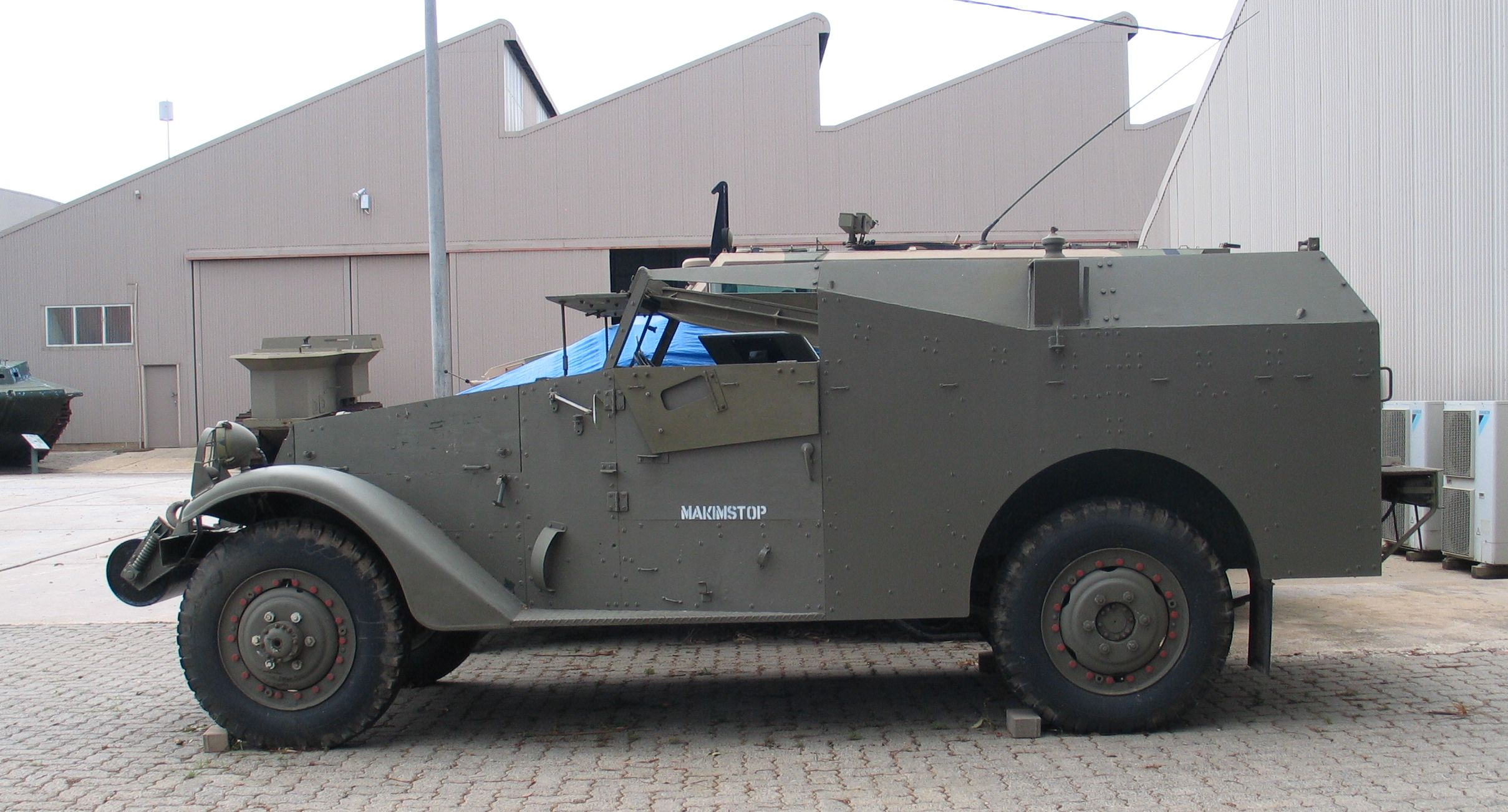 Scout Car M3A1 in Royal Australian Armoured Corps Tank Museum, Puckapunyal, Australia.